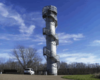 Photo provided by Army Corps of Engineers as part of public domain.